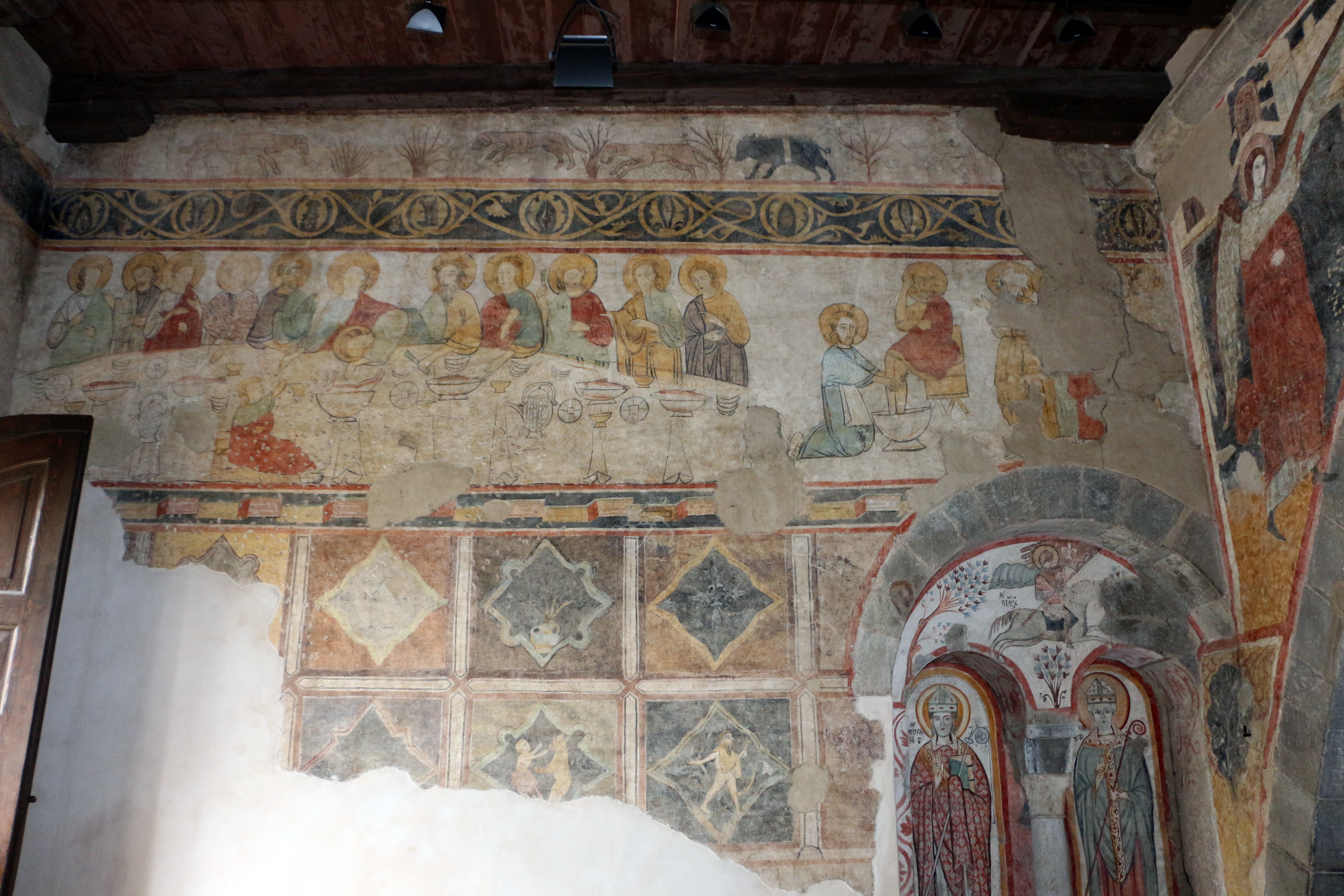 Palazzo della Curia Vescovile (Bergamo)